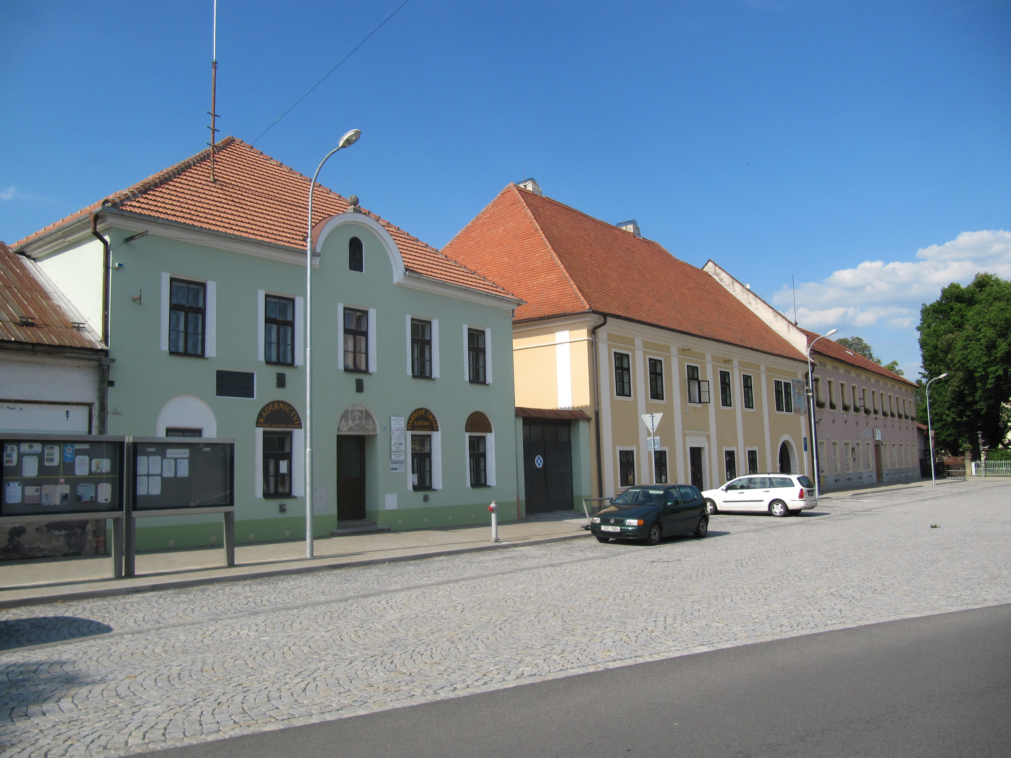 Kvasice in Kroměříž District, Czech Republic. A. Dohnala square.